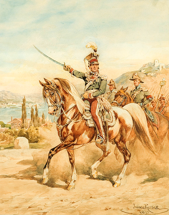 Marsz, marsz Dąbrowski!